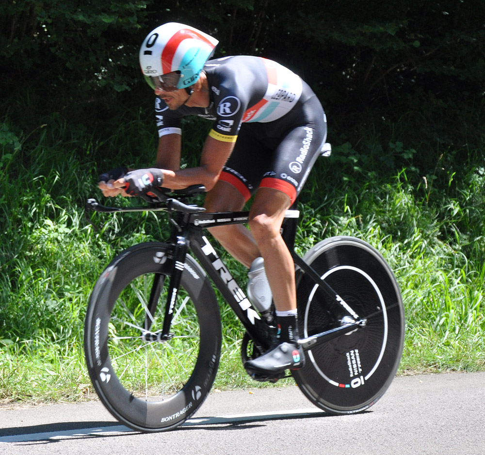 Andreas Klöden during individual time trial stage 9 of Tour de France 2012